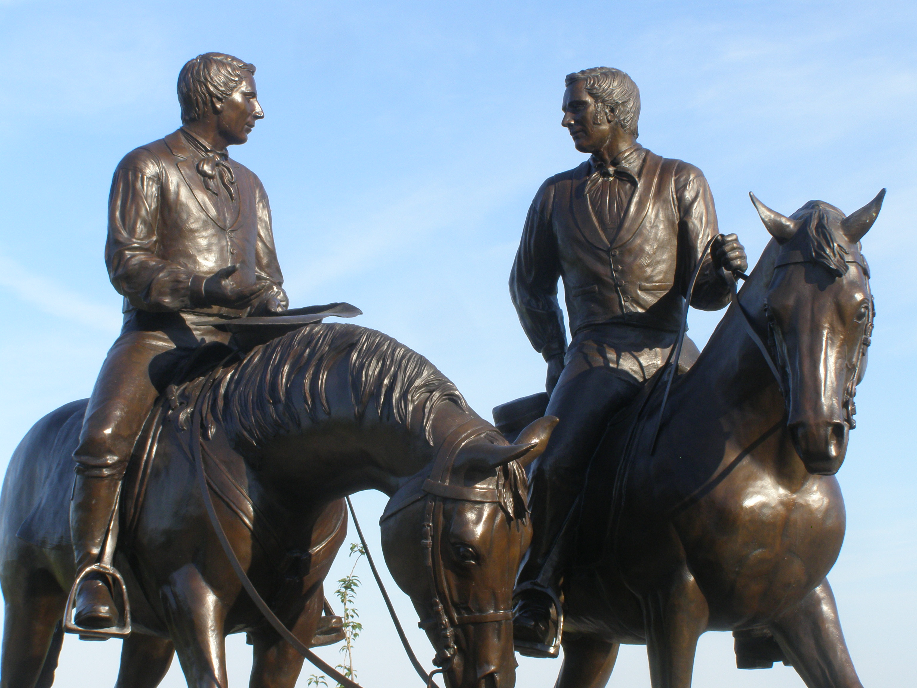 Joseph and Hiram Smith (Last Ride) monument in front of the Nauvoo Temple (LDS), Nauvoo, Illinois